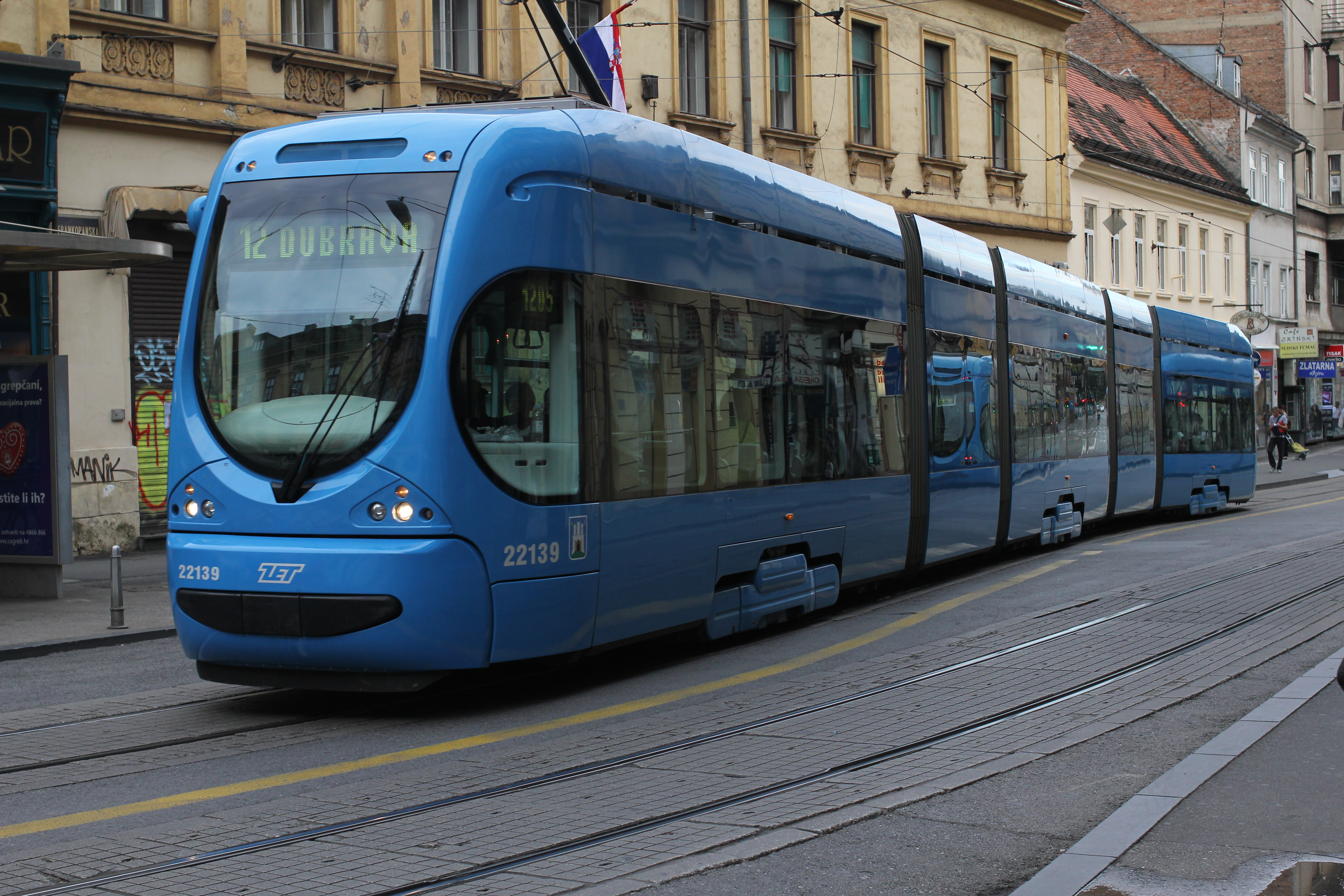 Zagreb, new tram TMK 2200.